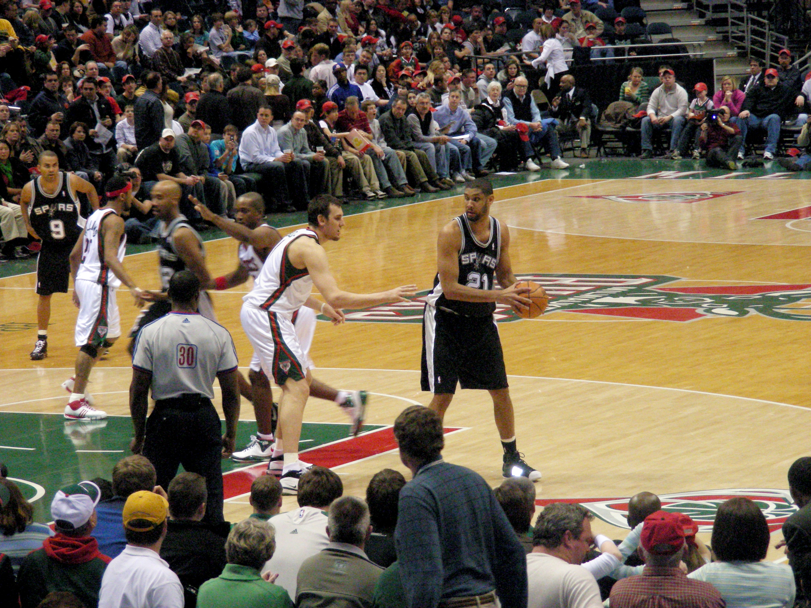 Tim Duncan holds the ball against the Milwaukee Bucks' Andrew Bogut